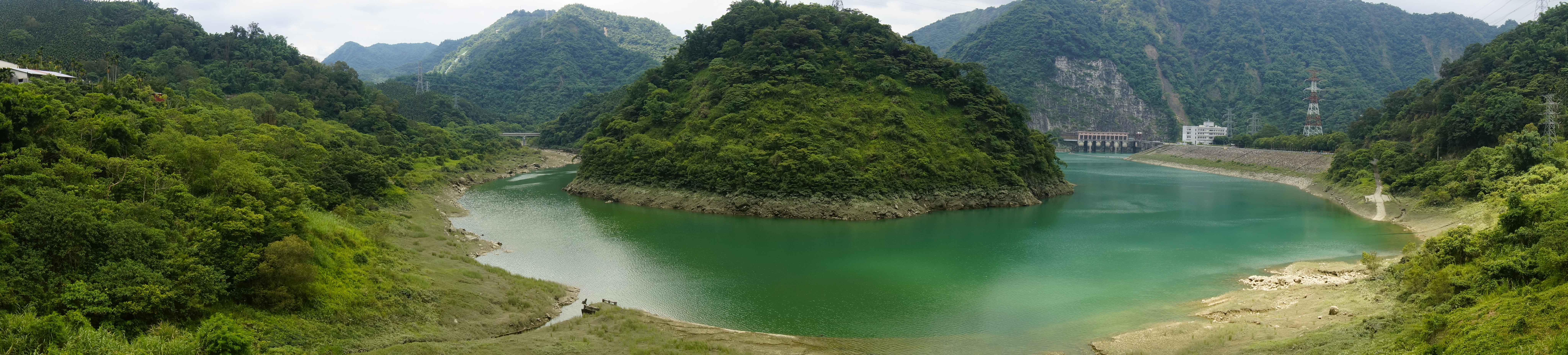 Mingtan Reservoir, Shuili Township, Nantou County, Taiwan中文（台灣）: 中华民国台湾省南投縣水里鄉明潭水庫